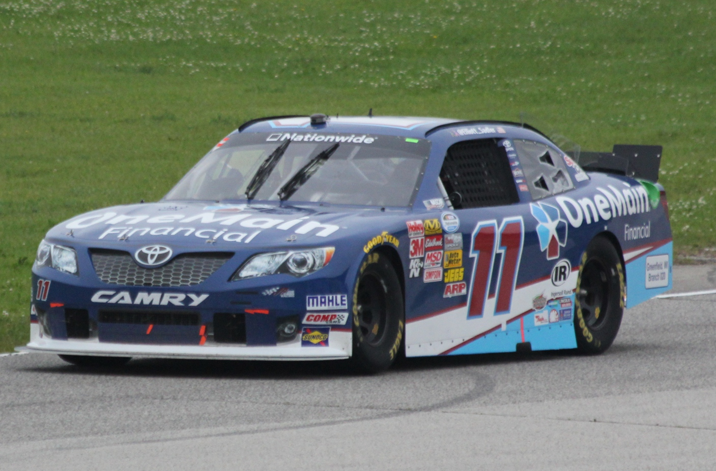 The driver's side of Elliott Sadler during the 2014 Gardner Denver 200 at Road America. Taken racing between turn 5 and 6.